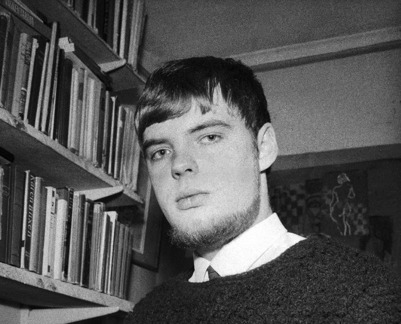 Photograph of the Finnish writer Juhani Peltonen (1941–1998).